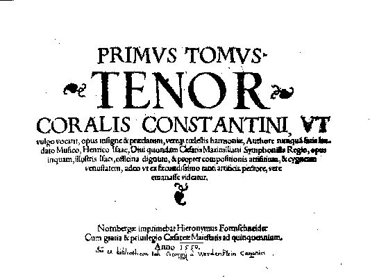 Title page from Tenor partbook of the Choralis Constaninus